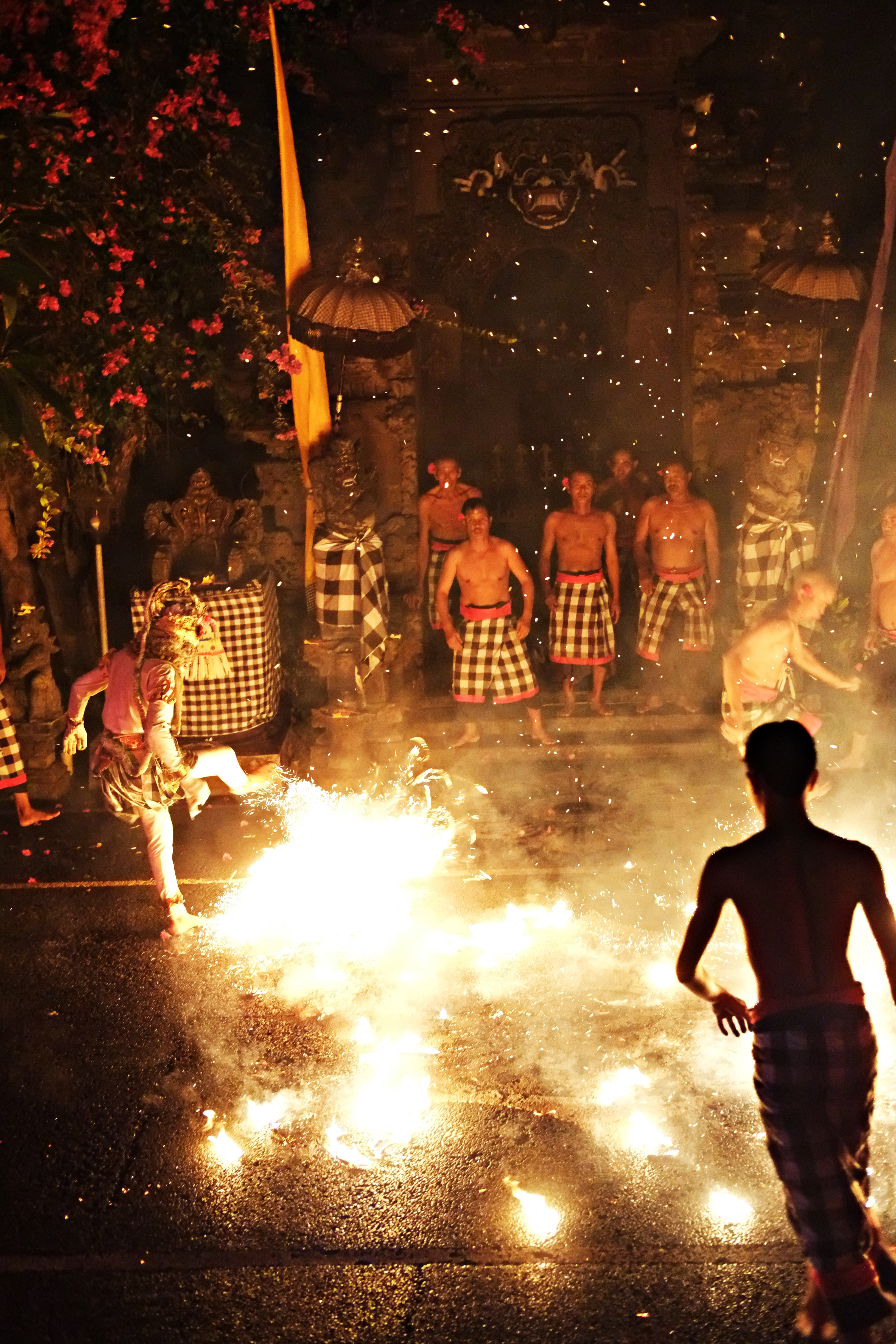 The Action of Hanoman At Kecak Fire Dance at Tanah Lot, Bali Indonesia